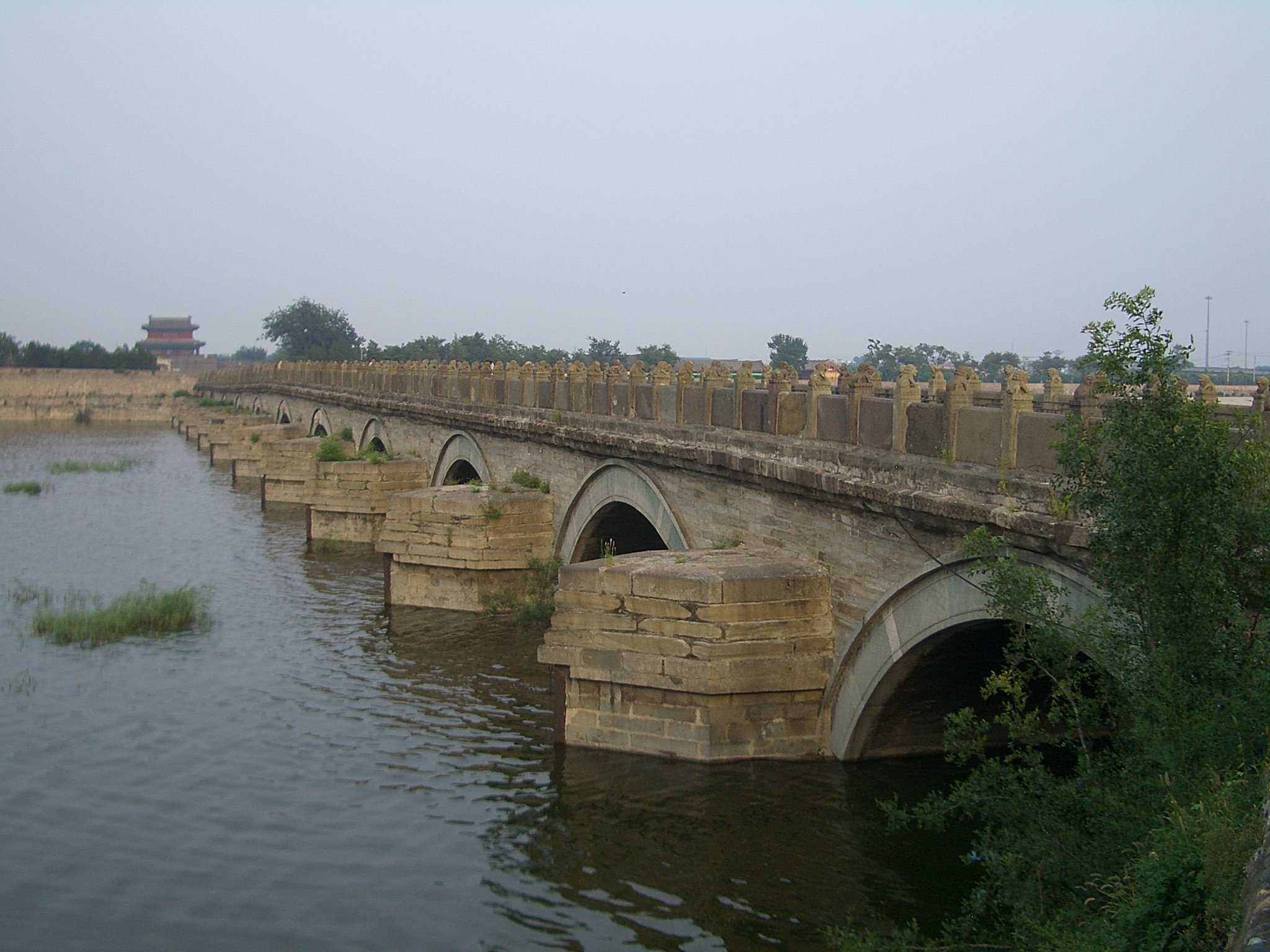 The Lugou Bridge over the Yongding River, seen from a point to the north of its western end